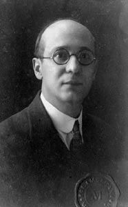 A picture of Colombian industrialist Gabriel Echavarría Misas